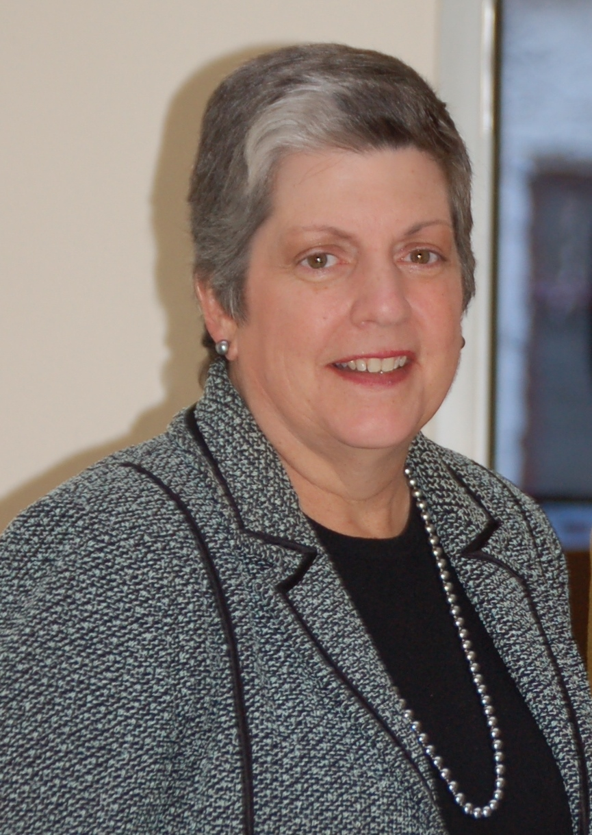 Secretary of Homeland Security Janet Napolitano met with the Swedish Civil Contingencies Agency (MSB) and Director General Helena Lindberg